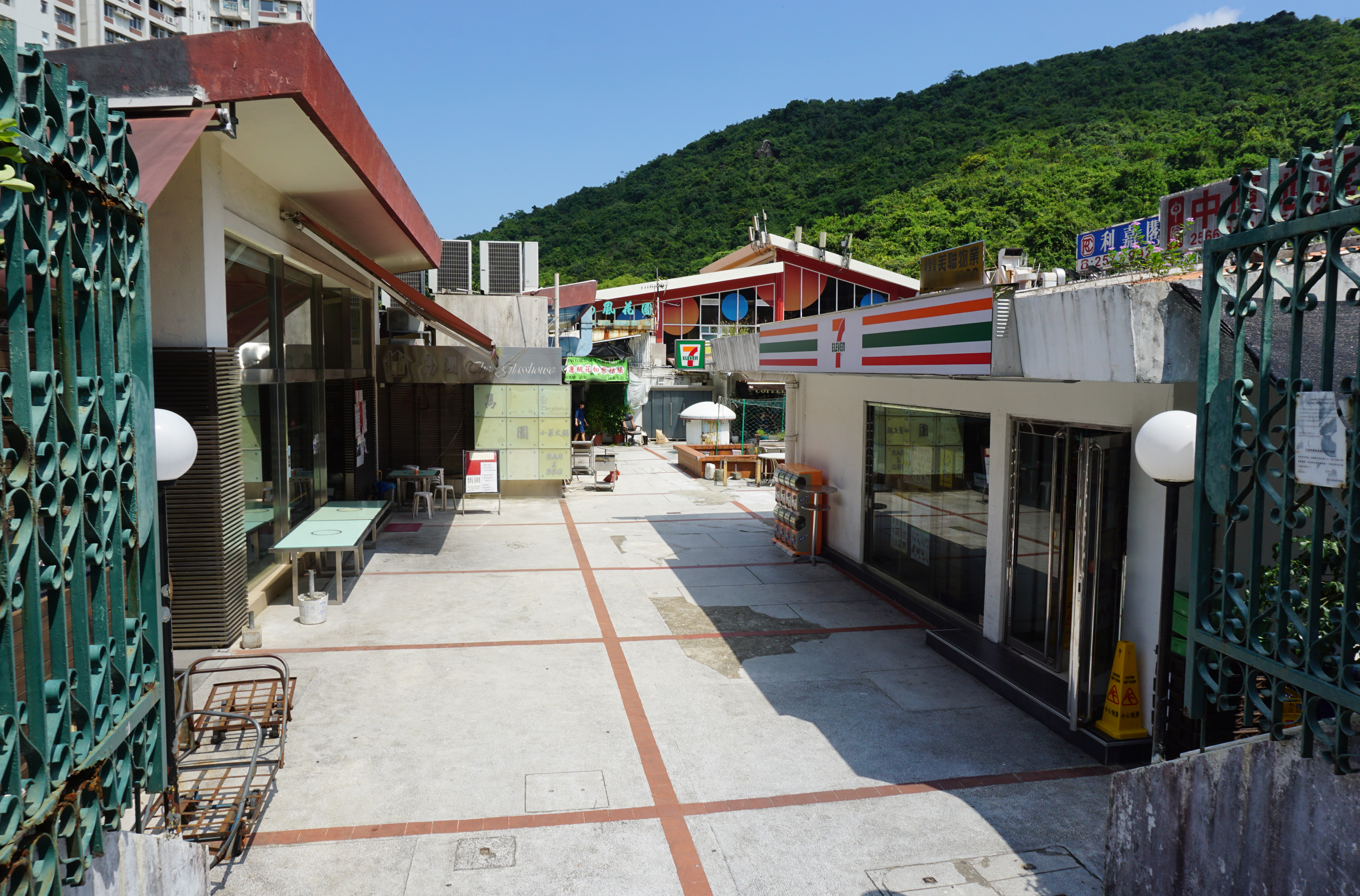 Braemar Hill Shopping Centre in North Point, Hong Kong.